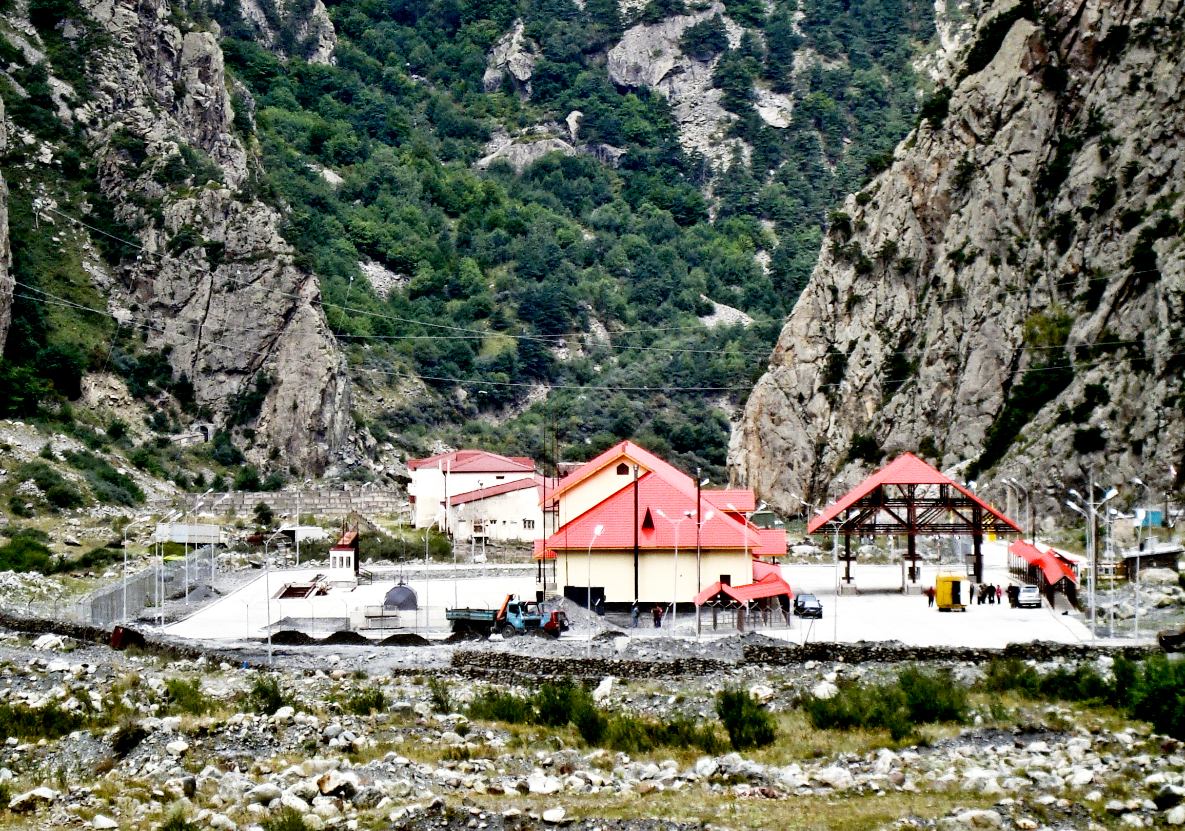 After five years and $2.4 million, the Kazbegi border crossing station was officially handed over to the Georgian government in a ribbon-cutting ceremony Sept. 4. The crossing is currently closed, but when the border opens again, the crossing station will play a vital role in ensuring the safe passage of people and goods.